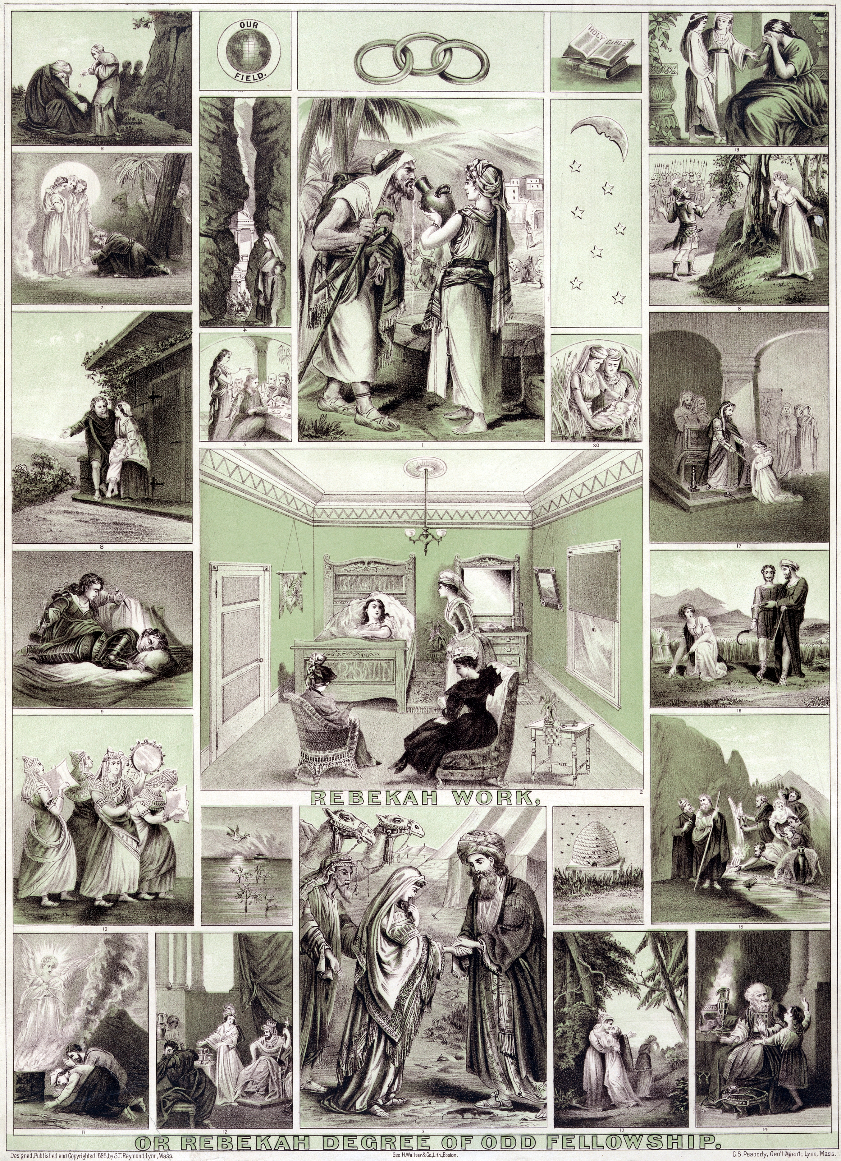 Lithography showing various themes connected with the work of the International Association of Rebekah Assemblies, a female counterpart of the Independent Order of Odd Fellows